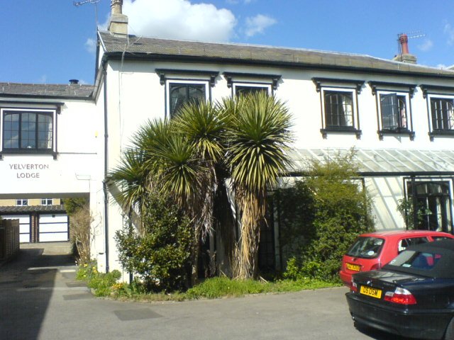 Yelverton Lodge, 9-12 Richmond Road, Richmond, Middlesex